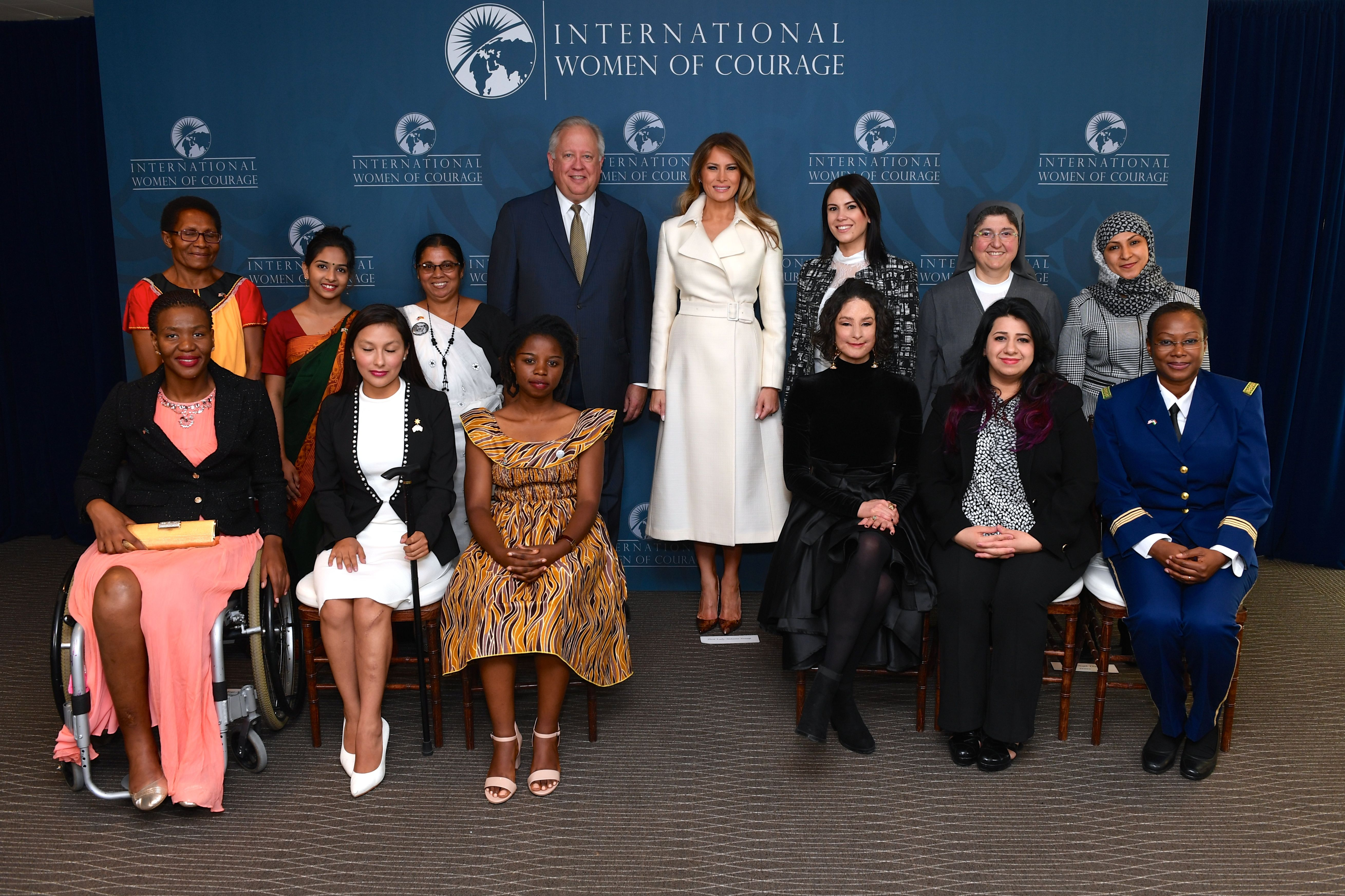 First Lady Melania Trump and Under Secretary of State for Political Affairs Thomas A. Shannon pose for a photo with the 2017 Secretary of State’s International Women of Courage Awardees before a ceremony at the U.S. Department of State in Washington, D.C., on March 29, 2017. The 2017 awardees are Sharmin Akter, Activist Against Early/ Forced Marriage, Bangladesh; Malebogo Molefhe, Human Rights Activist, Botswana; Natalia Ponce de Leon, President, Natalia Ponce de Leon Foundation, Colombia; Rebecca Kabugho, Political and Social Activist, Democratic Republic of Congo; Jannat Al Ghezi, Deputy Director of The Organization of Women’s Freedom in Iraq, Iraq; Major Aichatou Ousmane Issaka, Deputy Director of Social Work at the Military Hospital of Niamey, Niger; Veronica Simogun, Director and Founder, Family for Change Association, Papua New Guinea; Cindy Arlette Contreras Bautista, Lawyer and Founder of Not One Woman Less, Peru; Sandya Eknelygoda, Human Rights Activist, Sri Lanka; Sister Carolin Tahhan Fachakh, Member, Daughters of Mary Help of Christians (F.M.A.), Syria; Saadet Ozkan, Educator and Gender Activist, Turkey; Nguyen Ngoc Nhu Quynh, Blogger and Environmental Activist, Vietnam; and Fadia Najib Thabet, Human Rights Activist, Yemen. [State Department photo/ Public Domain]